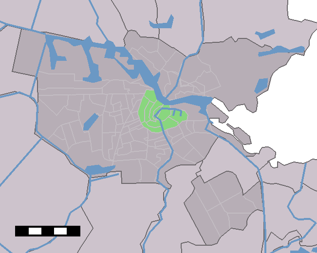 Location of neighbourhoods/districts in Amsterdam